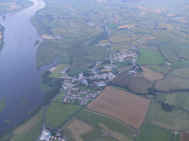 St.Johnstown Co.Donegal Aerial view of St.Johnstown and the surrounding countryside - the river Foyle to the left as it winds its way towards Derry. The cricket pitch is clearly visible at the river's edge.